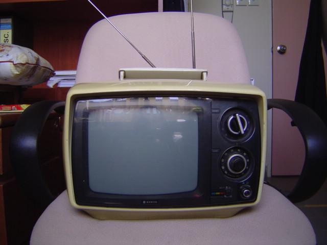 Sanyo portable television set